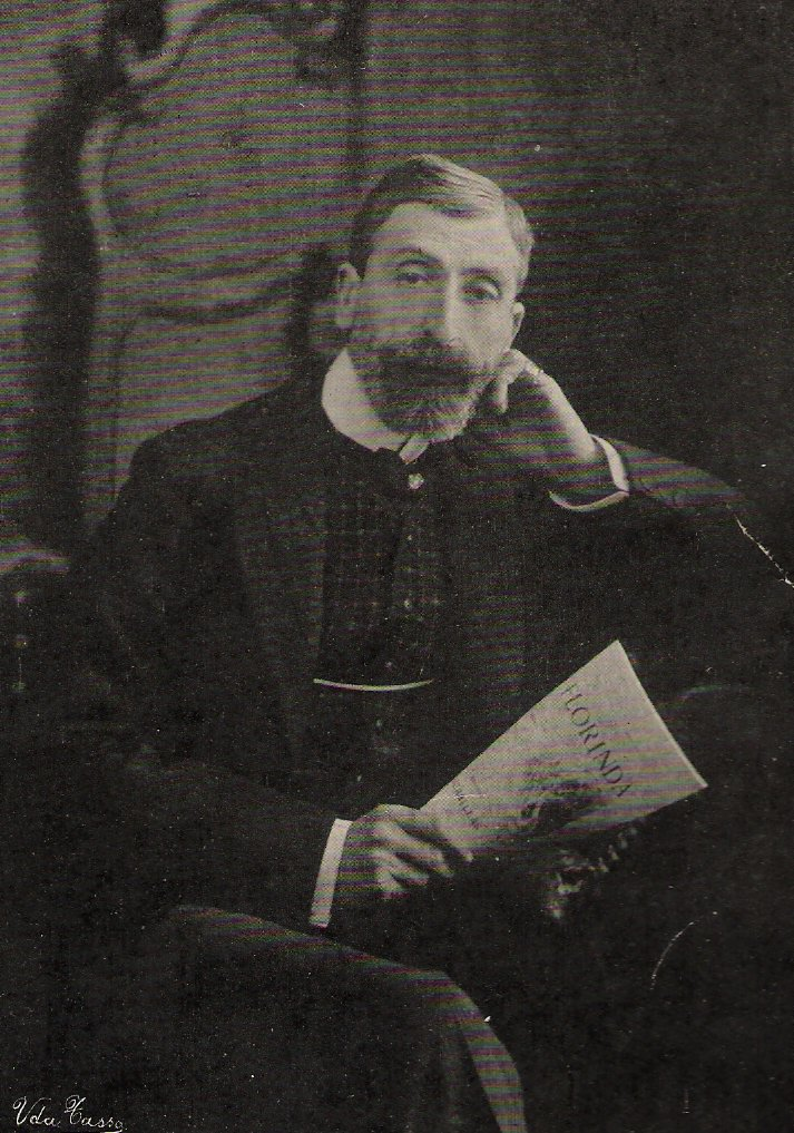 Eduardo Viscasillas Blanque (1848-1938)